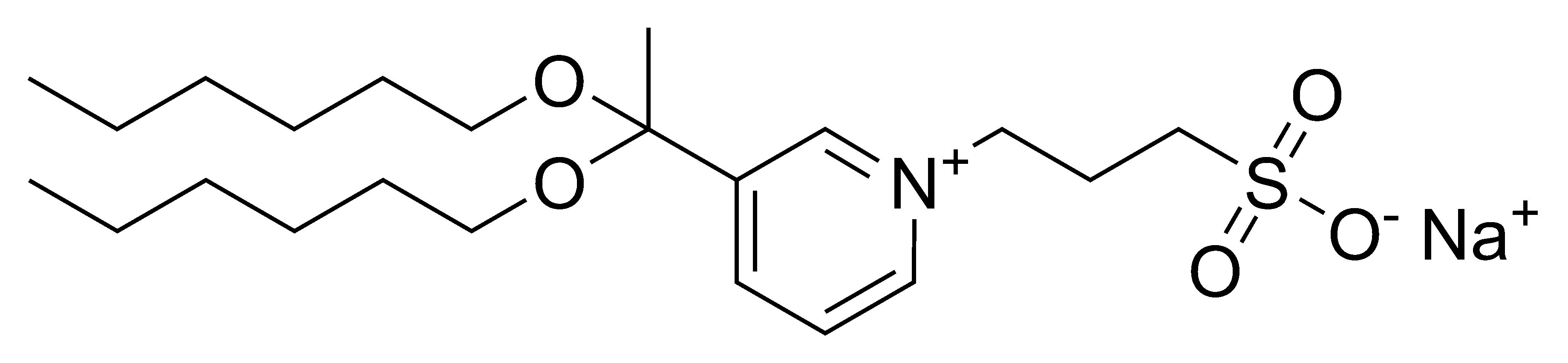 Chemical structure of a cleavable detergent